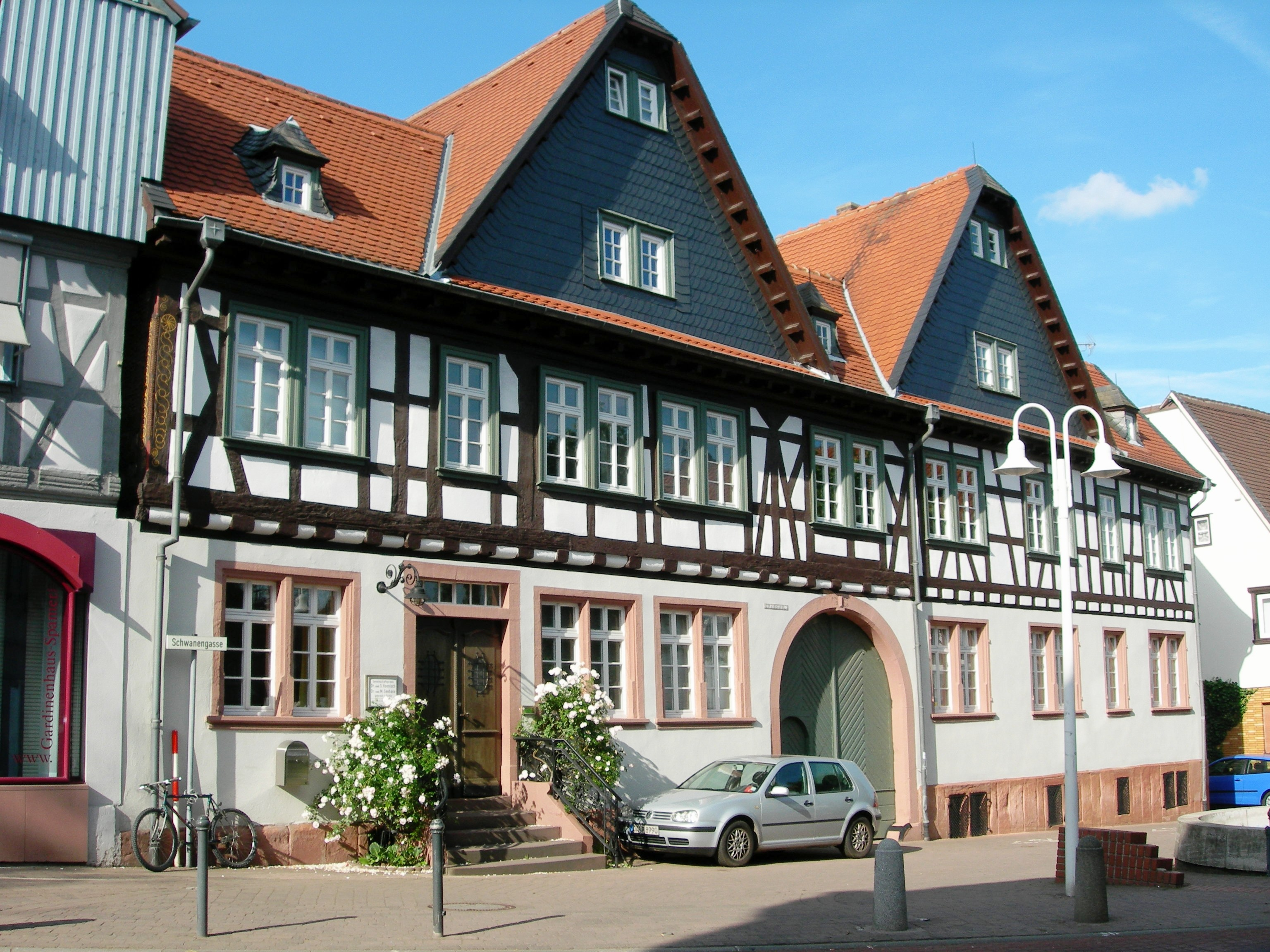 Groß-Umstadt (Hesse), historical house Schwanengasse